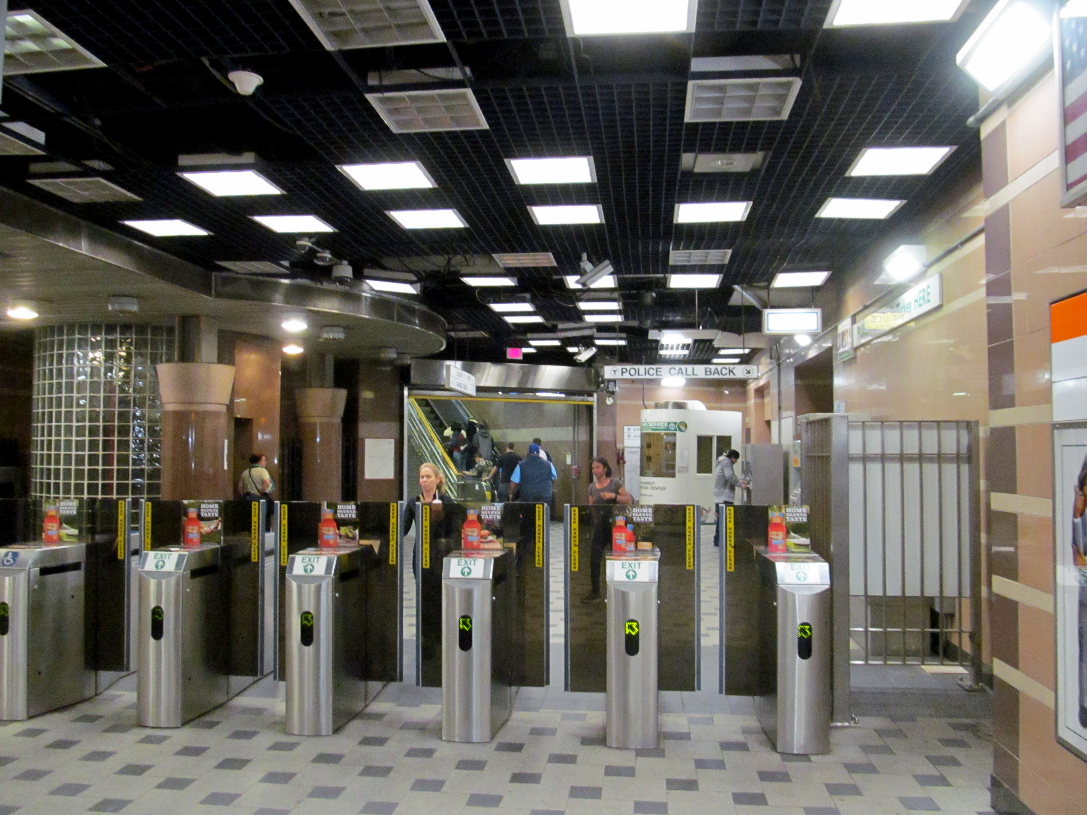 The main entrance to the Green line at Haymarket station. This entrance is served by the headhouse off Surface Road. The platforms of the old 1898 station were located about where the faregates are now.